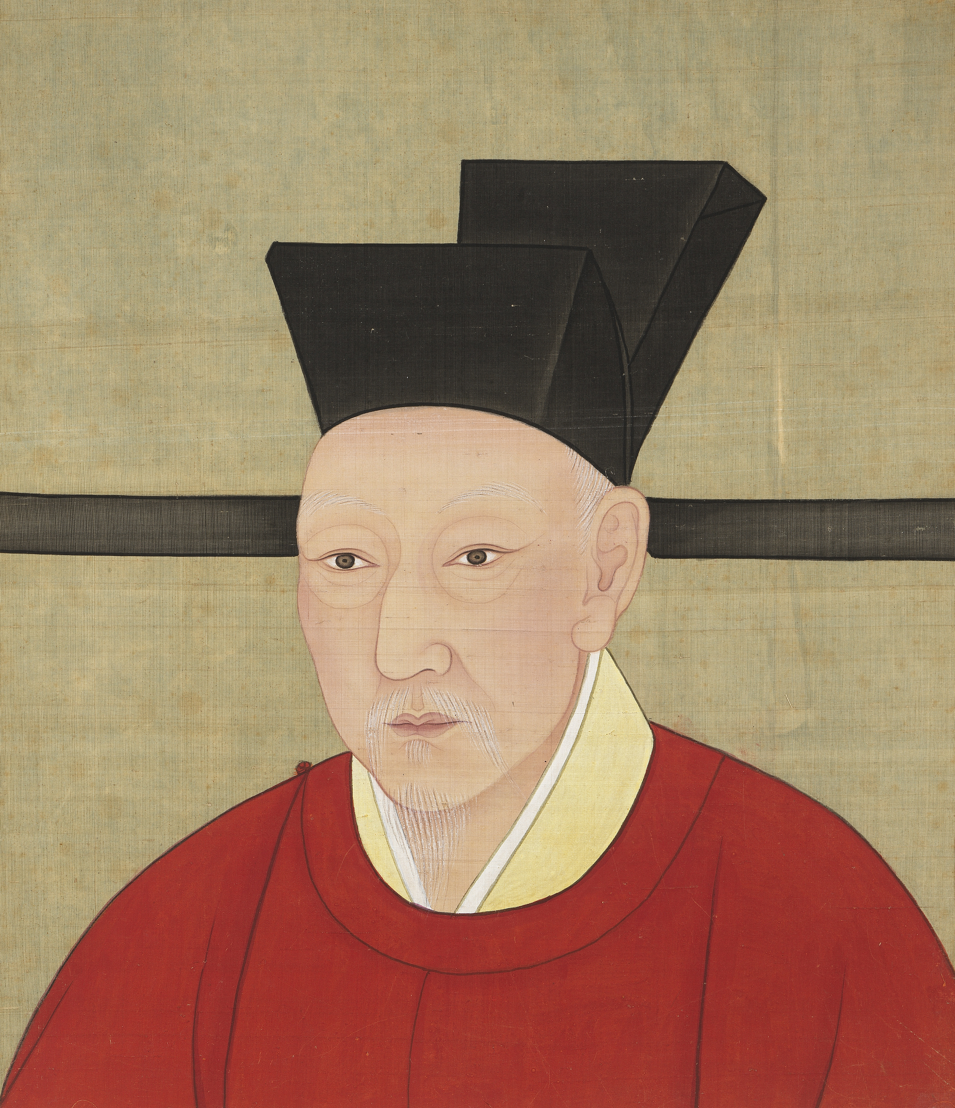 Song Gaozong.